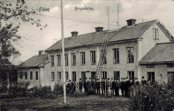 The mining college in Falun began in the early 1820s, in the same building where Johan Gottlieb Gahn (1745—1818) lived for many years. Photo published in 1922 in "The letters of Berzelius", published by The Royal Academy of Sciences.